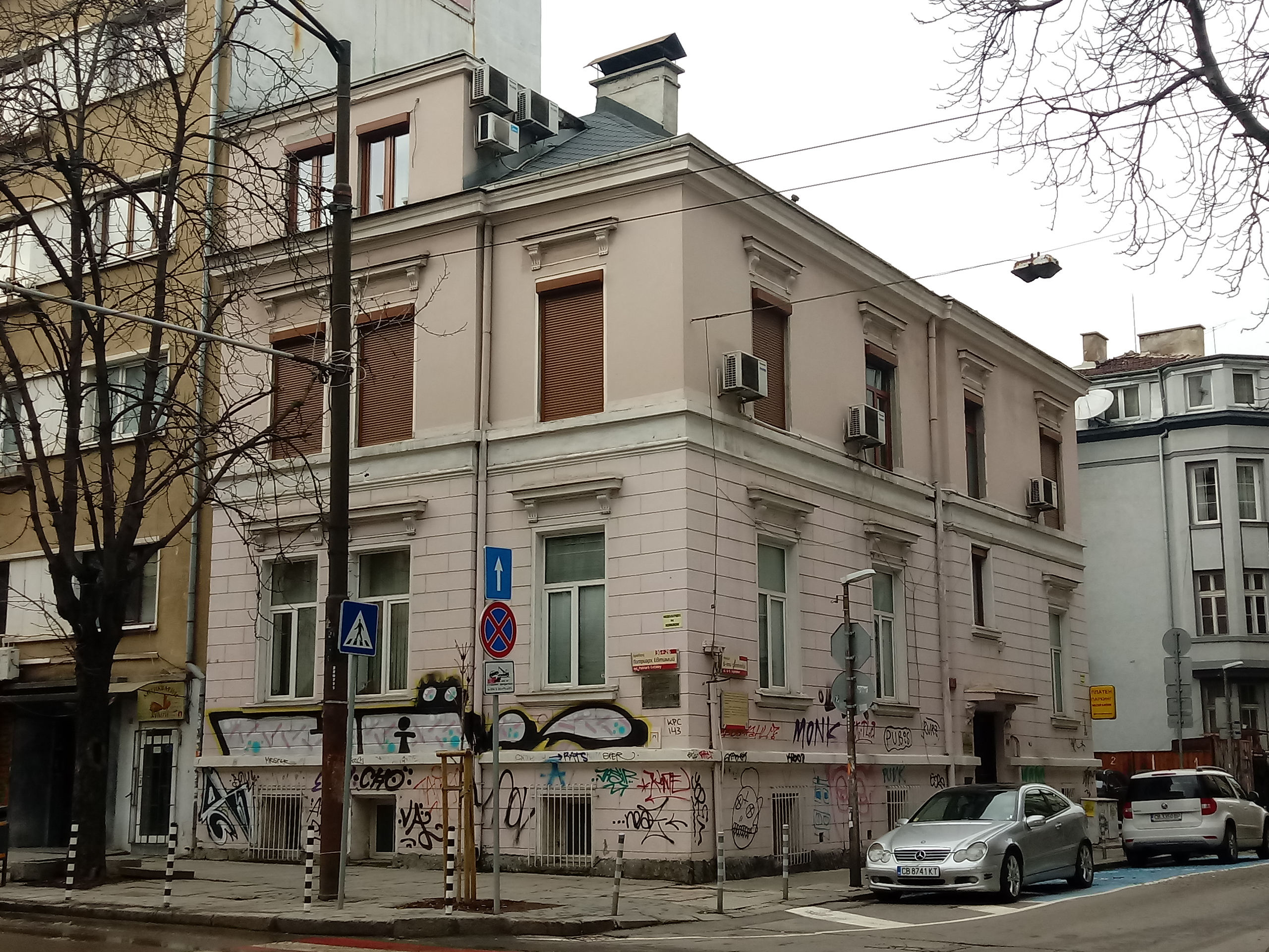 Stefan Mladenov home with memorial plaque, 26 Patriarch Evtimiy Blvd., Sofia